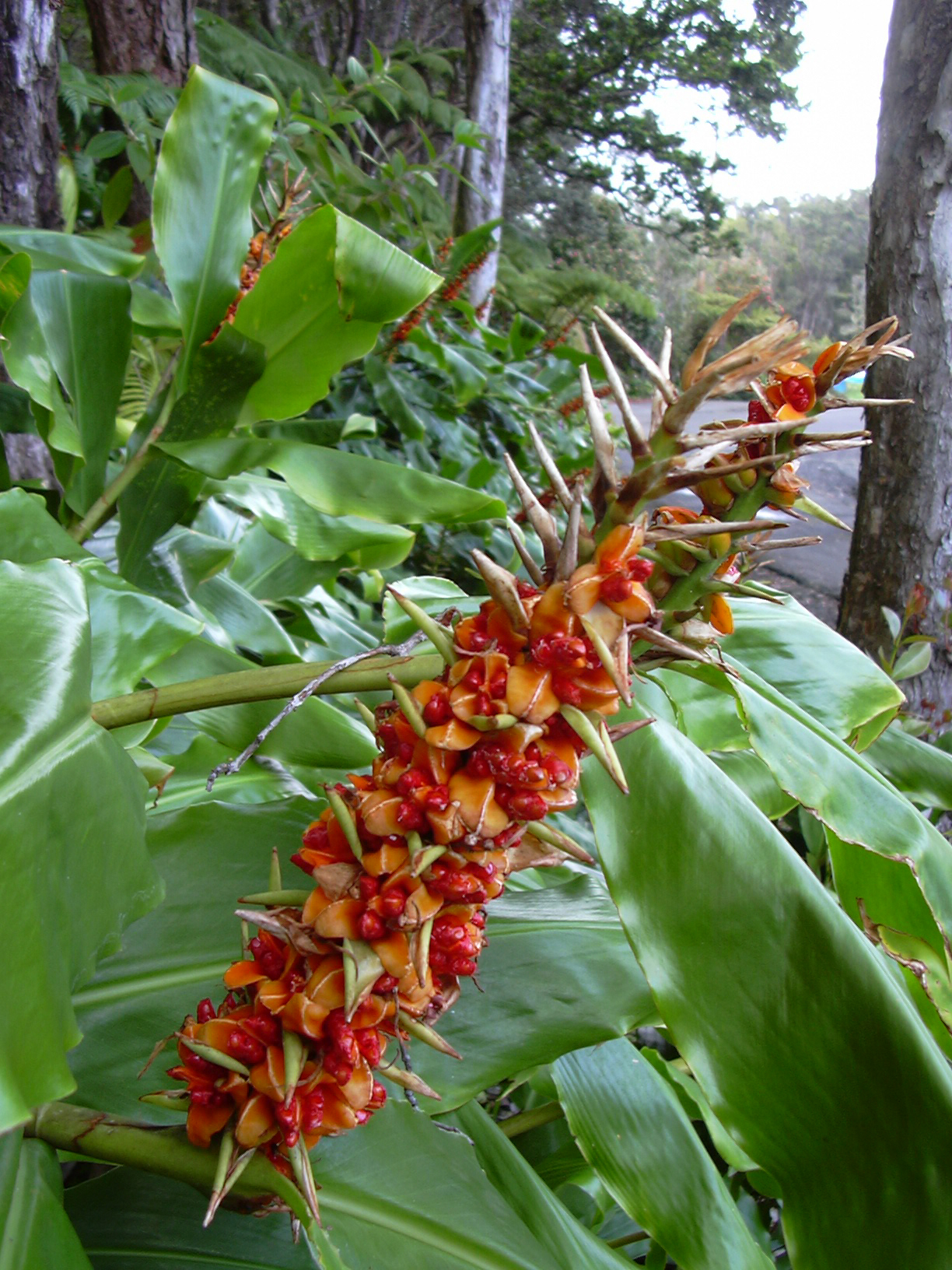 Hedychium gardnerianum (fruit). Location: Hawaii, Volcano